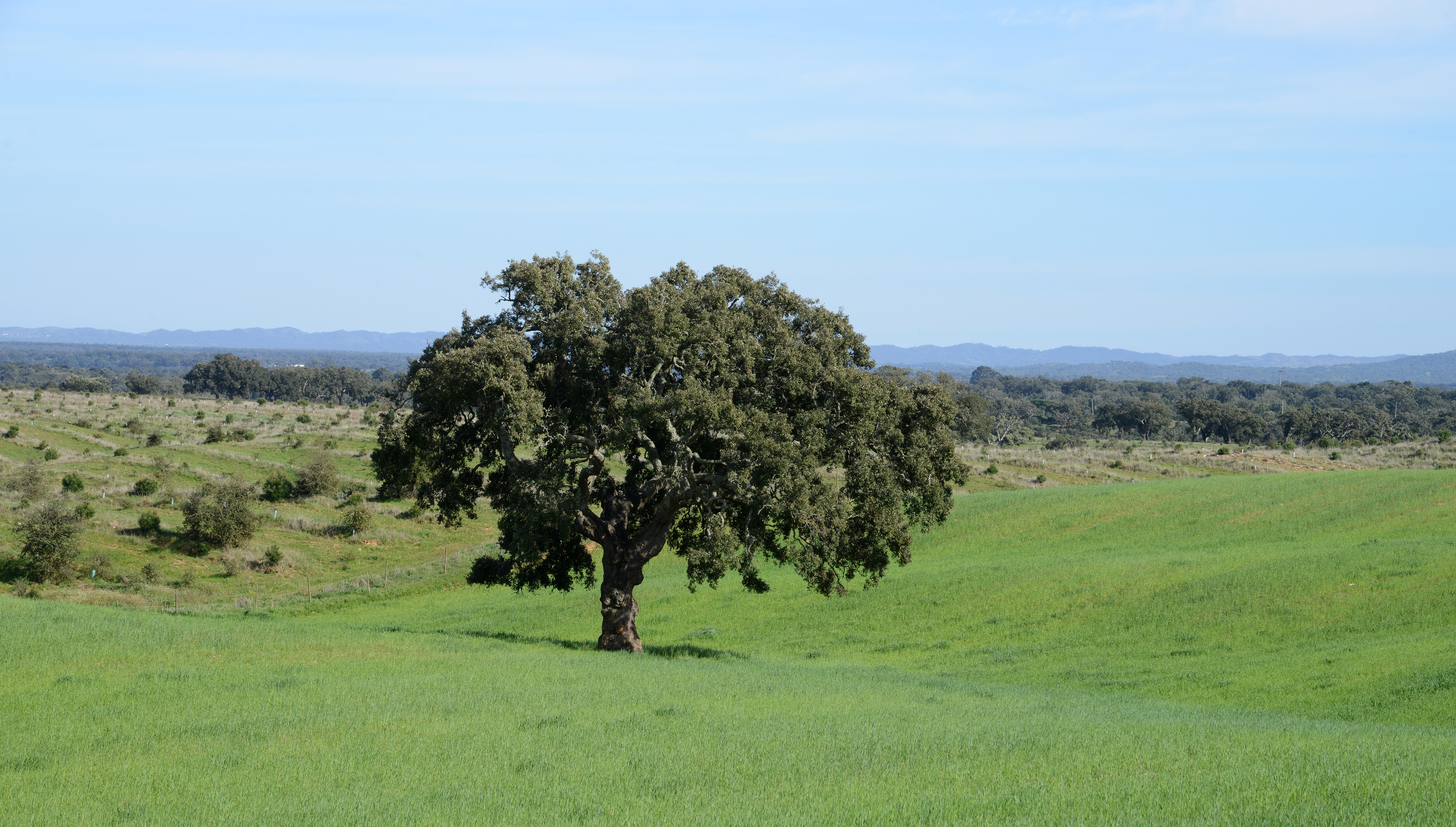 Cork Oak in Alentejo, Portugal